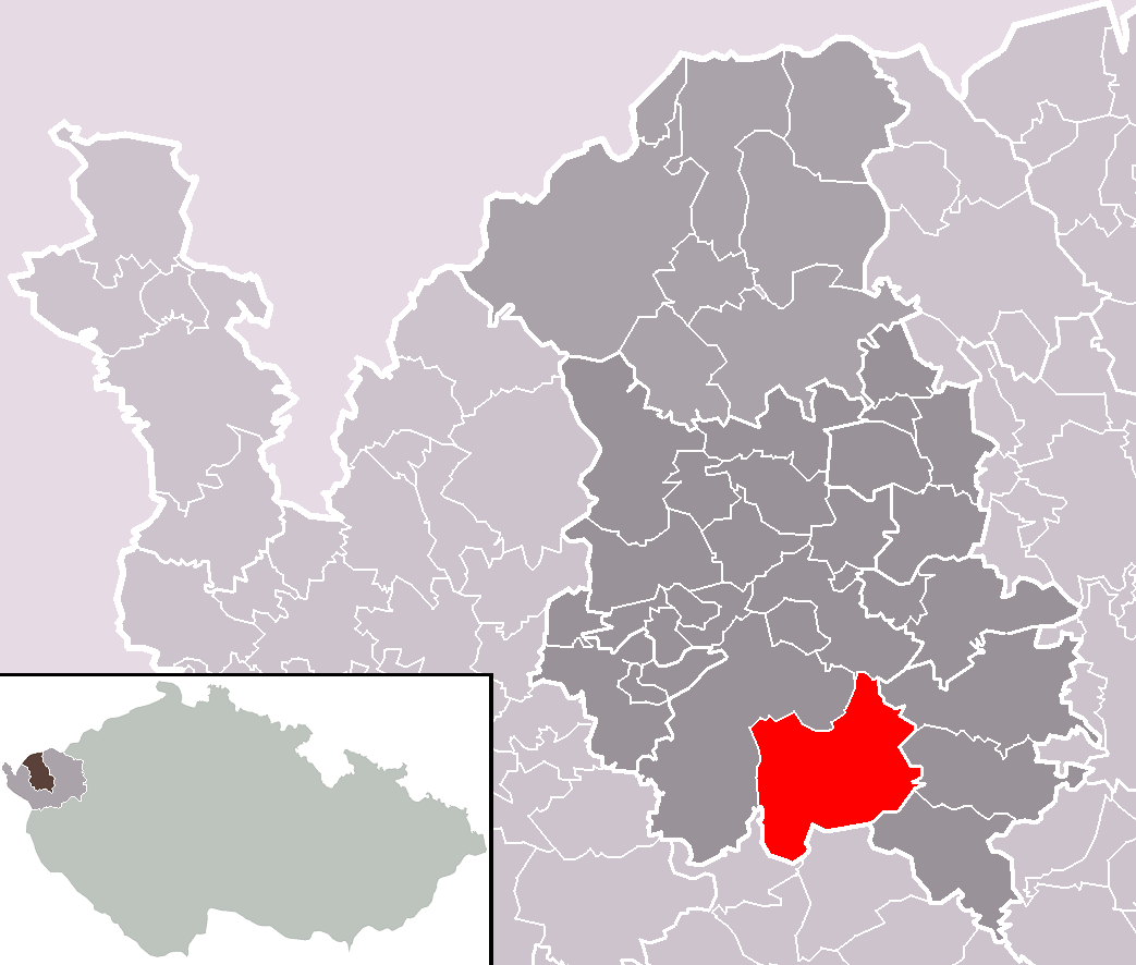 Location of Rovná municipality within Sokolov District and administrative area of Sokolov as a Municipality with Extended Competence.